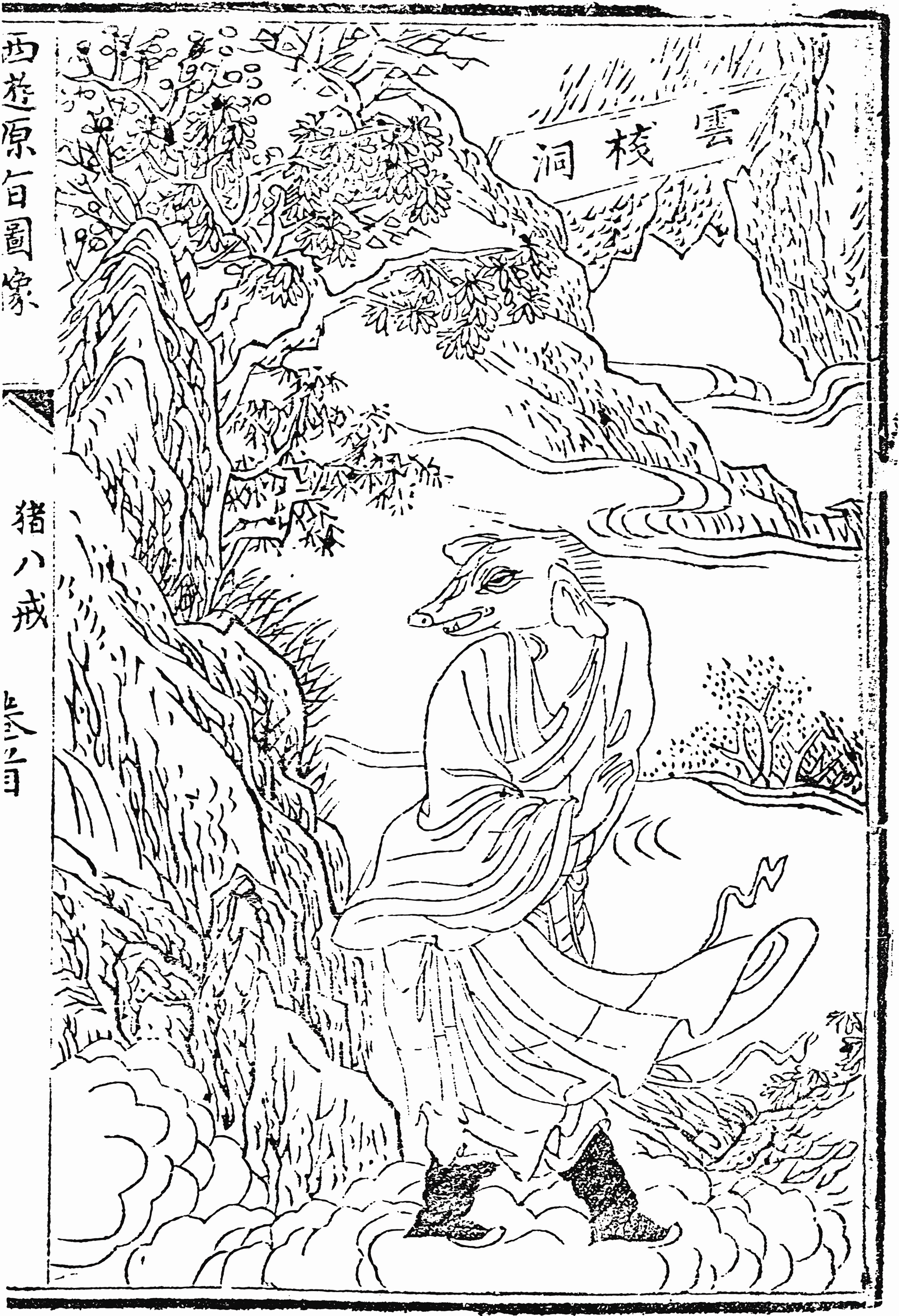 Illustration for ancient Chinese book “The Journey to the West”